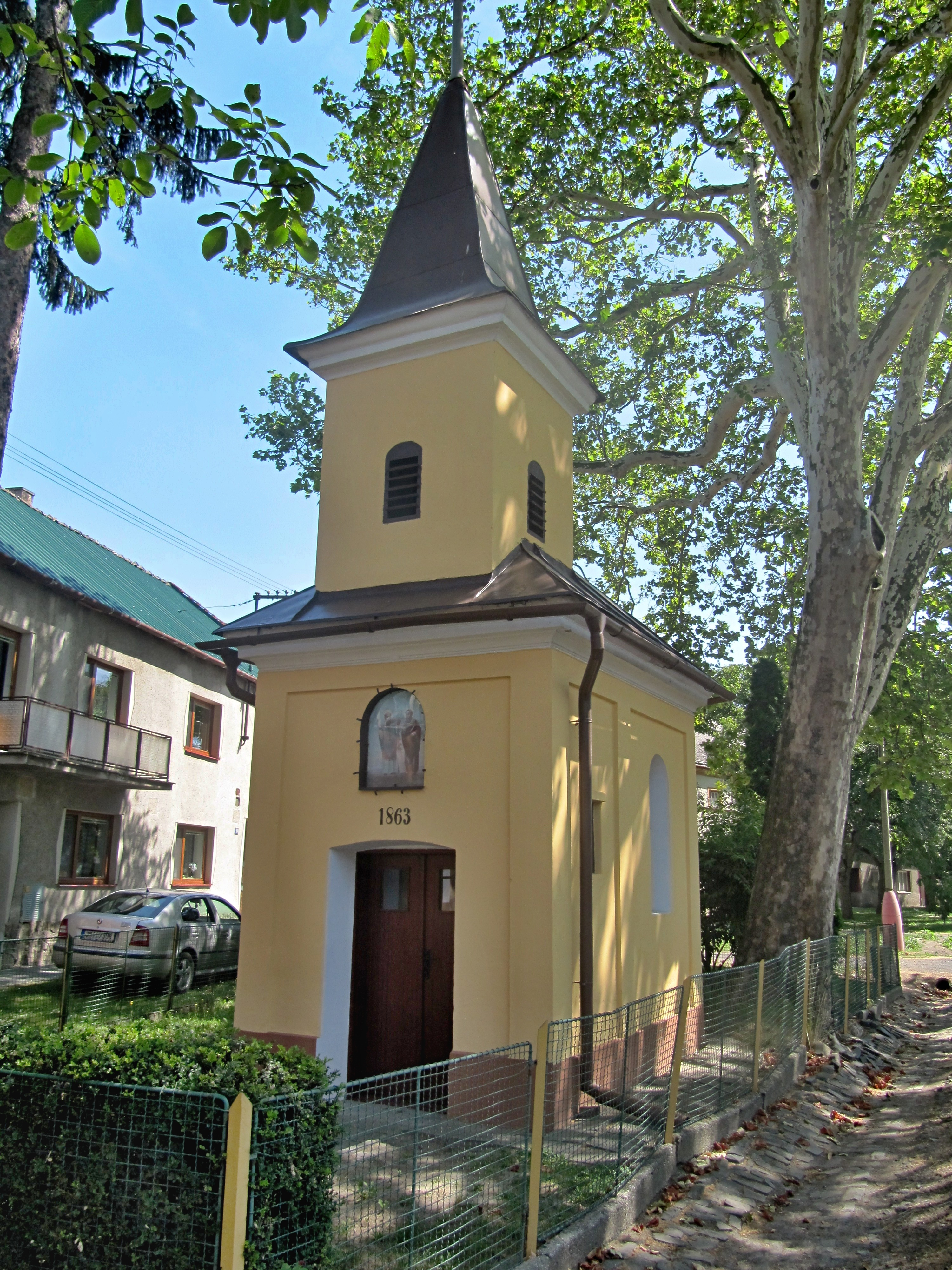 Vlkoš, Přerov District, Czech Republic, part Kanovsko.